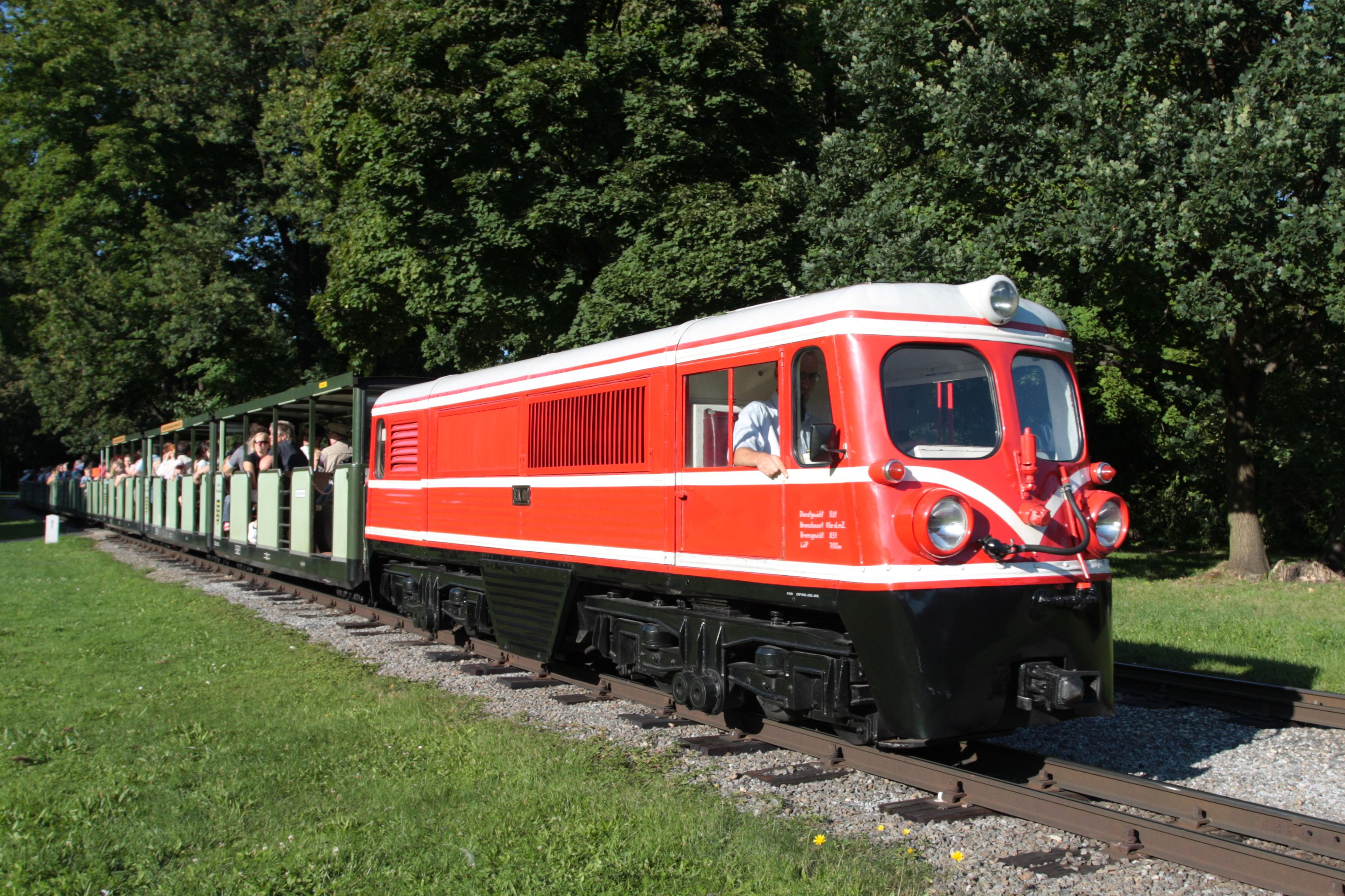 red engine (Dresden Park Railway)